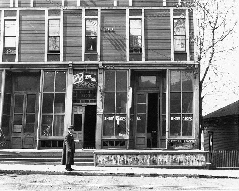 Denny Regrade neighborhood .On verso of image: "Western and Battery. 5-19-1909." Subjects (LCSH): Liverpool House (Seattle, Wash.); Boardinghouses--Washington (State)--Seattle; Western Avenue (Seattle, Wash.); Denny Regrade (Seattle, Wash.)